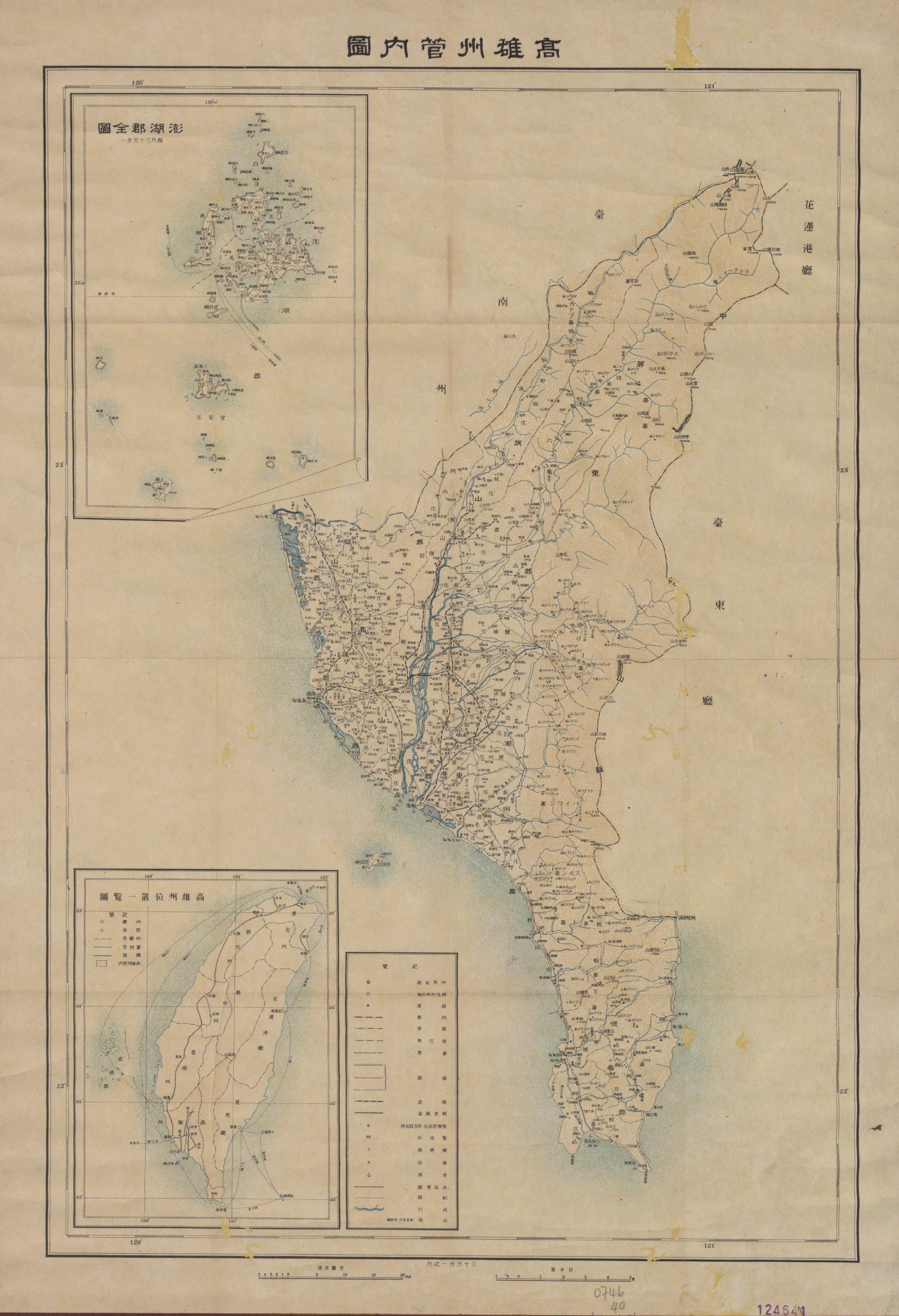 The Takao Province (or Prefecture) of the Japanese Formosa. The database: [1]